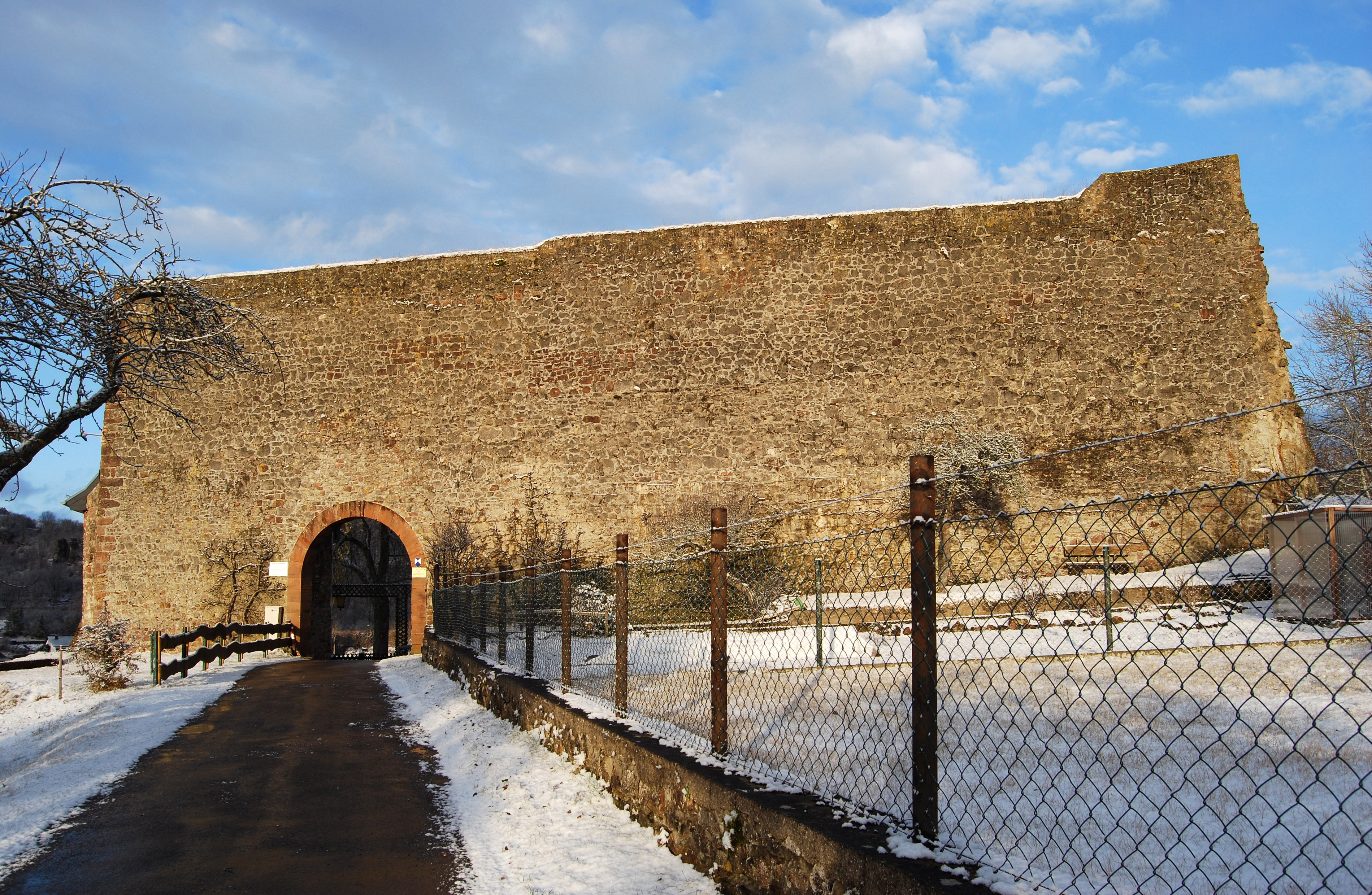 Gerolstein castle: frontal wall of the outer bailey.